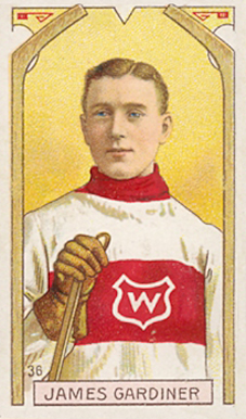 1910–11 Imperial Tobacco Co. hockey card #36 of Montreal Wanderers player James Gardiner